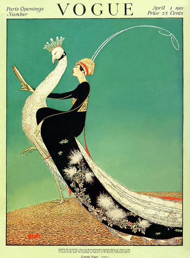 Vogue magazine cover, April 1, 1918: Woman wearing a black gown and sitting on a giant peacock, by George Wolfe Plank